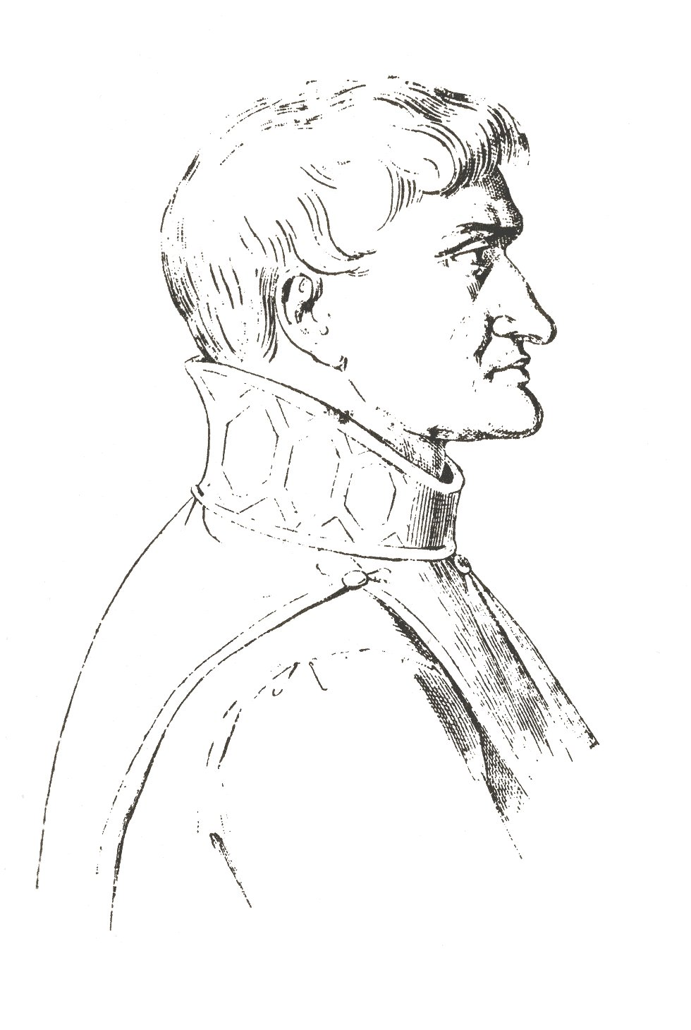 Profile of John of Procida in Saint Matthew's Church in Salerno - Drawing by Michele Parascandolo 1893 - scan by utente:Retaggio.